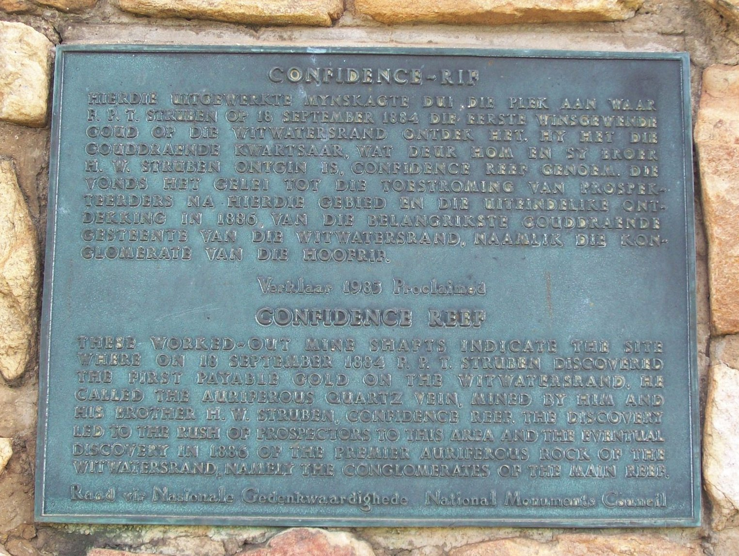 Information plaque, Confidence Reef, Kloof-en-Dal Nature Reserve, Kloof-en-Dal, Roodepoort Inscription: The worked-out mine shafts indicate the site where on 18 September 1884 F.P.T. Struben discovered the first payable gold on the Witwatersrand. He called the auriferous quartz vein, mined by him and his brother H.W. Struben, Confidence Reef. The discovery led to the rush of prospectors to this area and the eventual discovery in 1886 of the premier auriferous rock of the Witwatersrand, namely the conglomerates of the main reef. National Monuments Council This media shows a South African Protected Site with SAHRA file reference 9/2/262/0001-001.